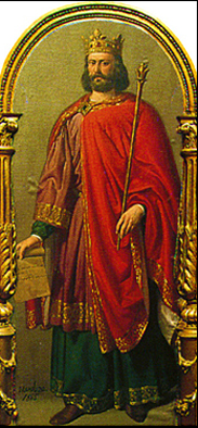 Sancho VI of Navarre